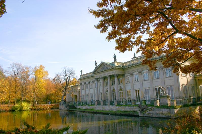 Palac na Wodzie in Warsaw with the permission of the authers Marek and Ewa Wojciechowscy [1]